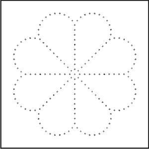 Stringart: Flower hole pattenRomână: Grafică brodată: Găuri la modelul de floare